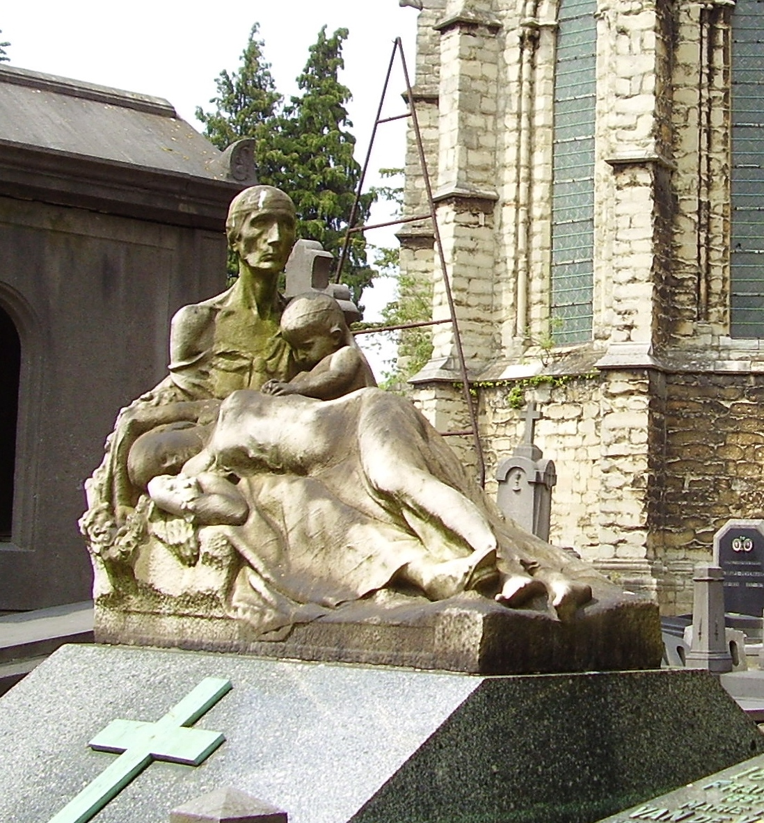 The beginning and the end, grave of Georges De Ro, sculpture by Isidore De Rudder, Laeken cemetery, Brussels